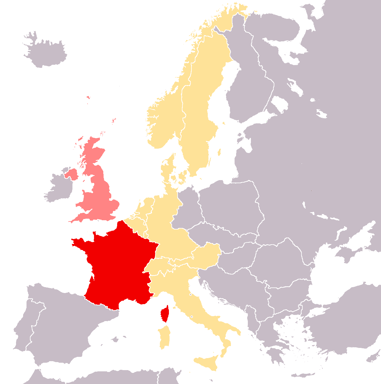 Map of Eurovision 1960